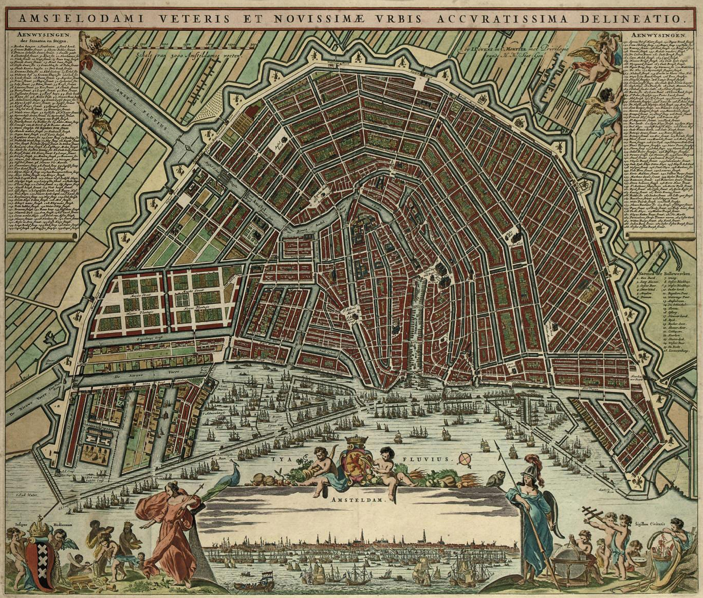 A handcoloured engraved map of Amsterdam 'AMSTELODAMI VETERIS ET NOVISSIMAE URBIS ACCURATISSIMA DELINEATIO'